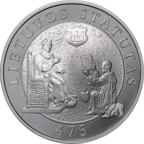 50 Litas coin to mark 475th Anniversary of the First Statute of Lithuania Silver Ag 925 Quality proof Diameter 38.61 mm Weight 28.28 g The words on the edge of the coin: BUKIME TEISES VERGAI, KAD GALETUME NAUDOTIS LAISVEMIS (BE SLAVE OF LAW TO ENJOY FREEDOMS) Designed by Petras Repšys Mintage 1,000 pcs Issued 2004 The coin was minted at the state enterprise Lithuanian Mint.